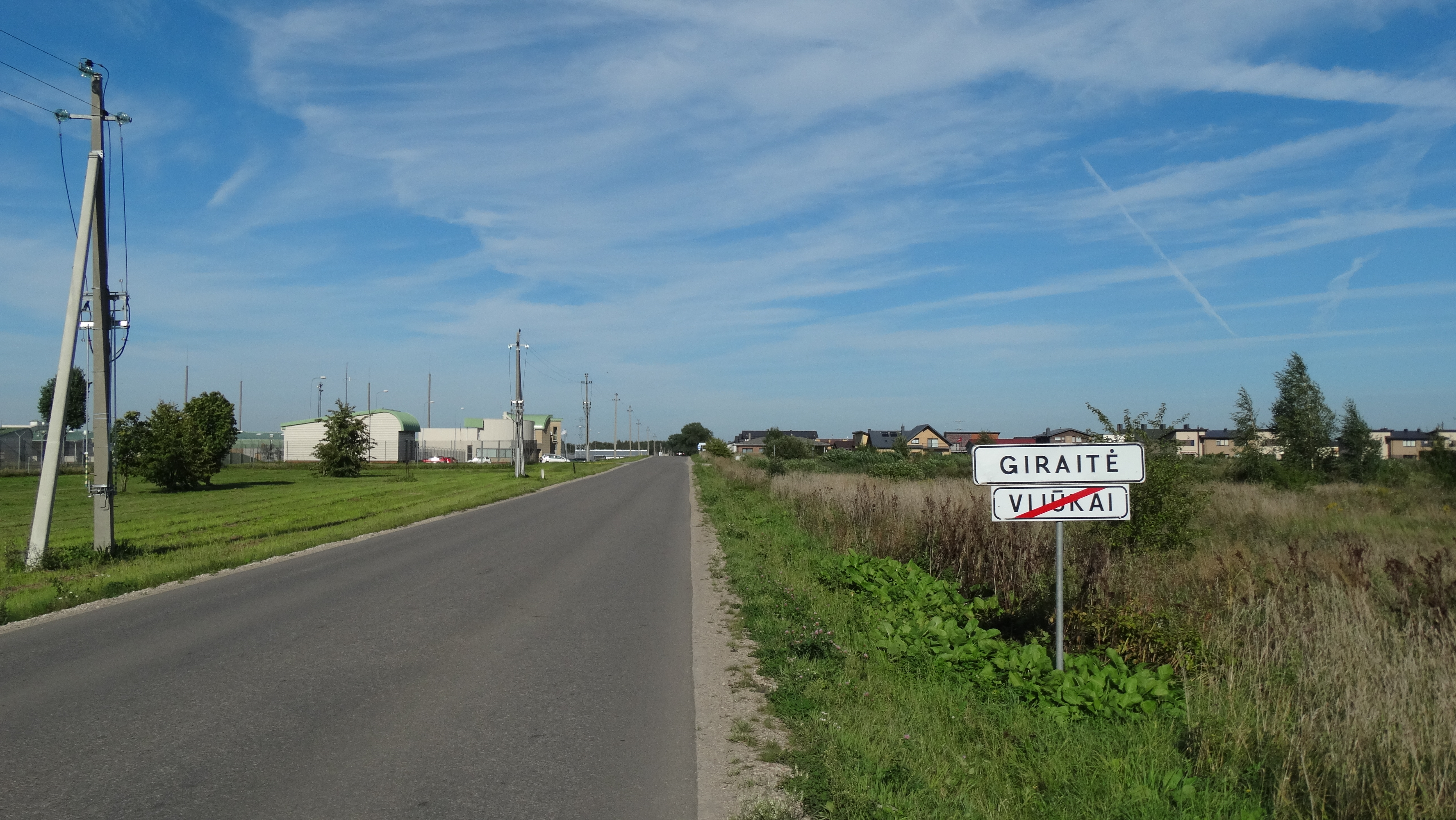 Giraitė, Kaunas District, Lithuania